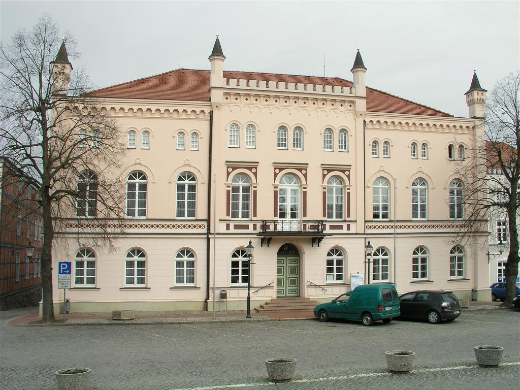 Sternberg, Mecklenburg, Germany: photo 2007